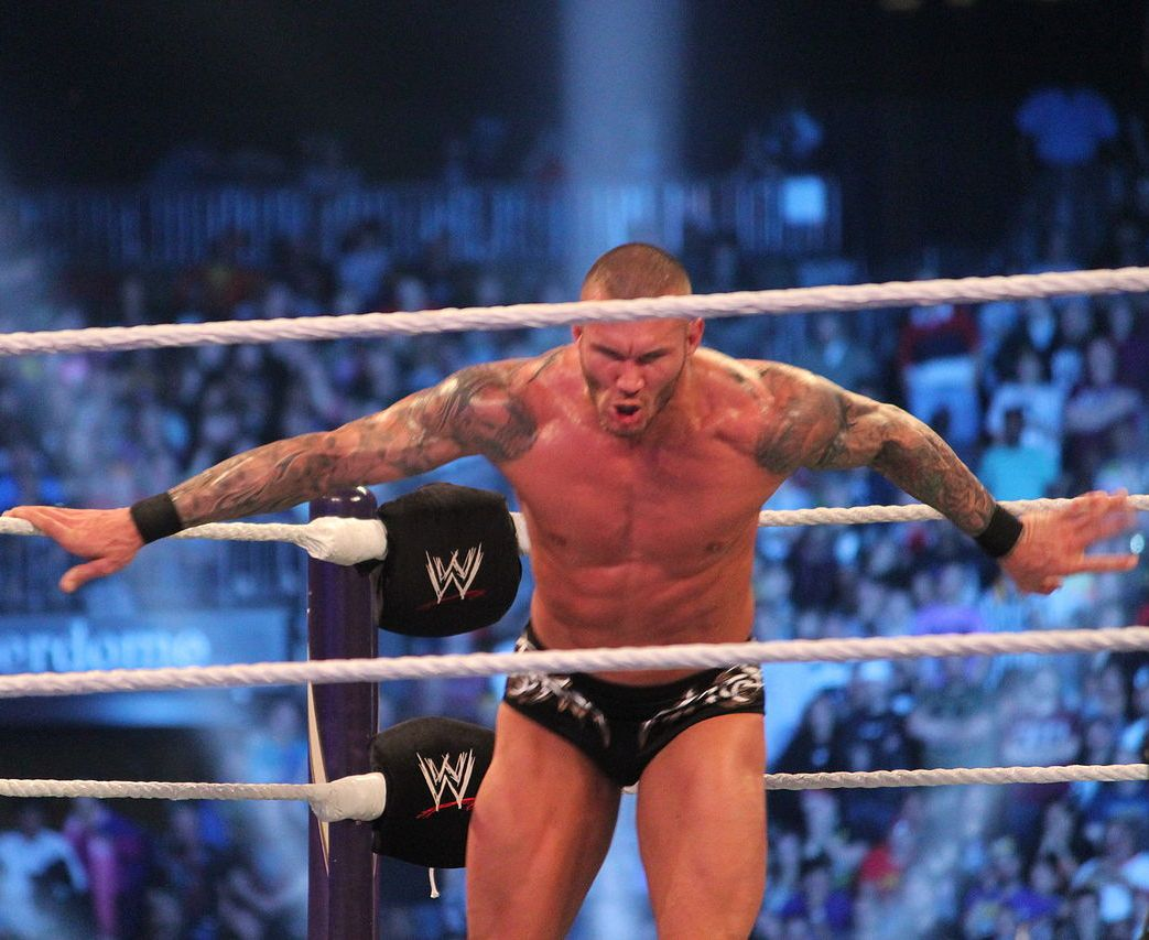 Orton prepares to hit running punt kick on Daniel Bryan